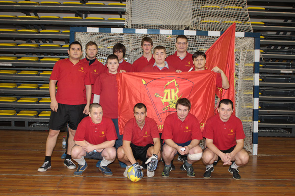 Команда-ДК-по-футболу-общая мини